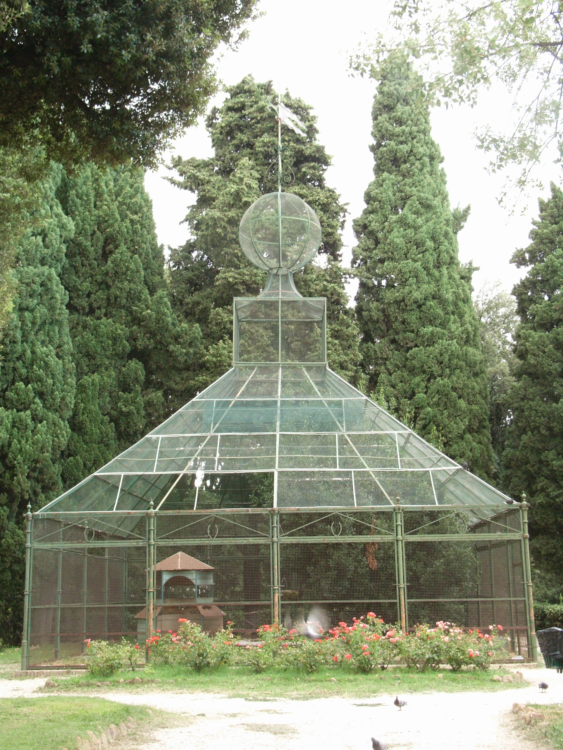 Aviary. Villa Sciarra Rome